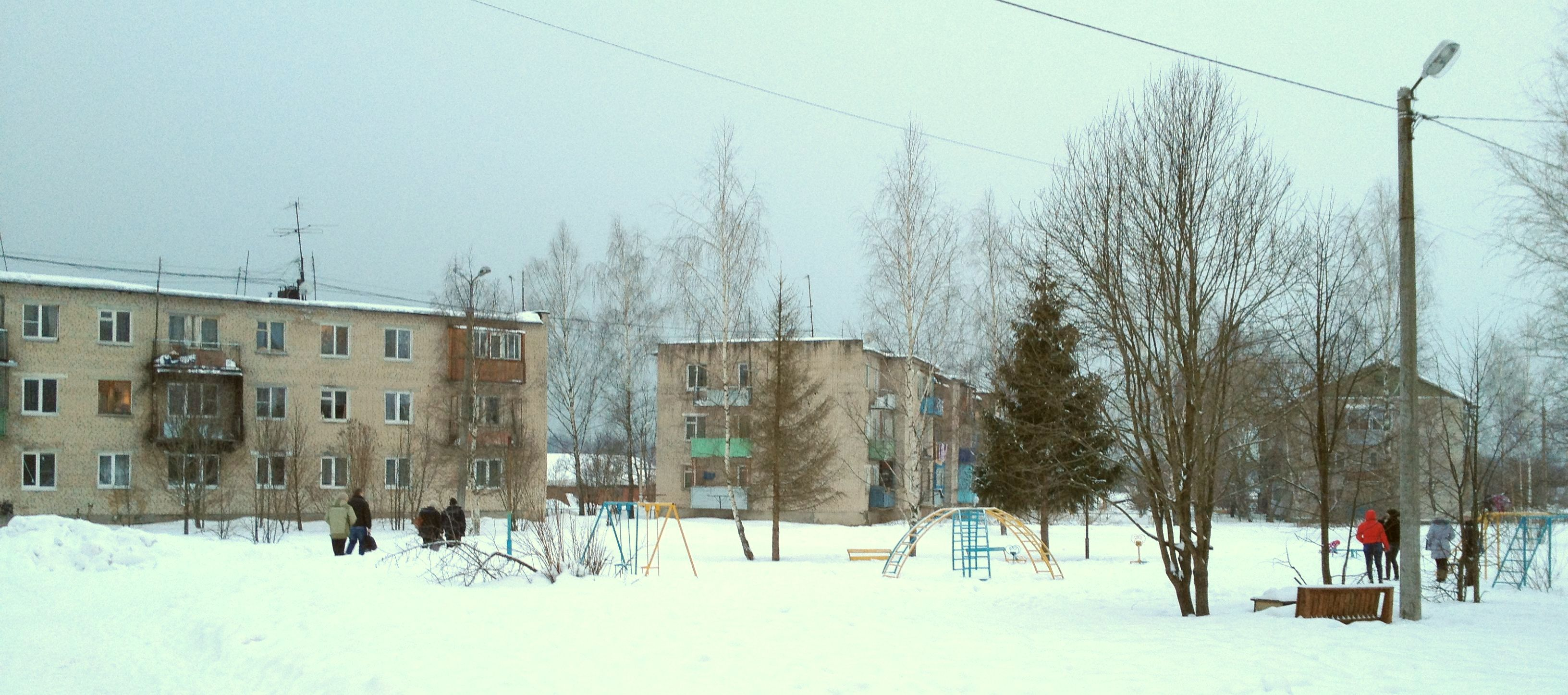 Novonikolskoe (Taldomsky district)